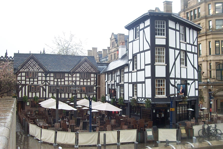 Old pubs in Exchange Square, Manchester. there are maney old pubs in manchster Category:Images of Manchester